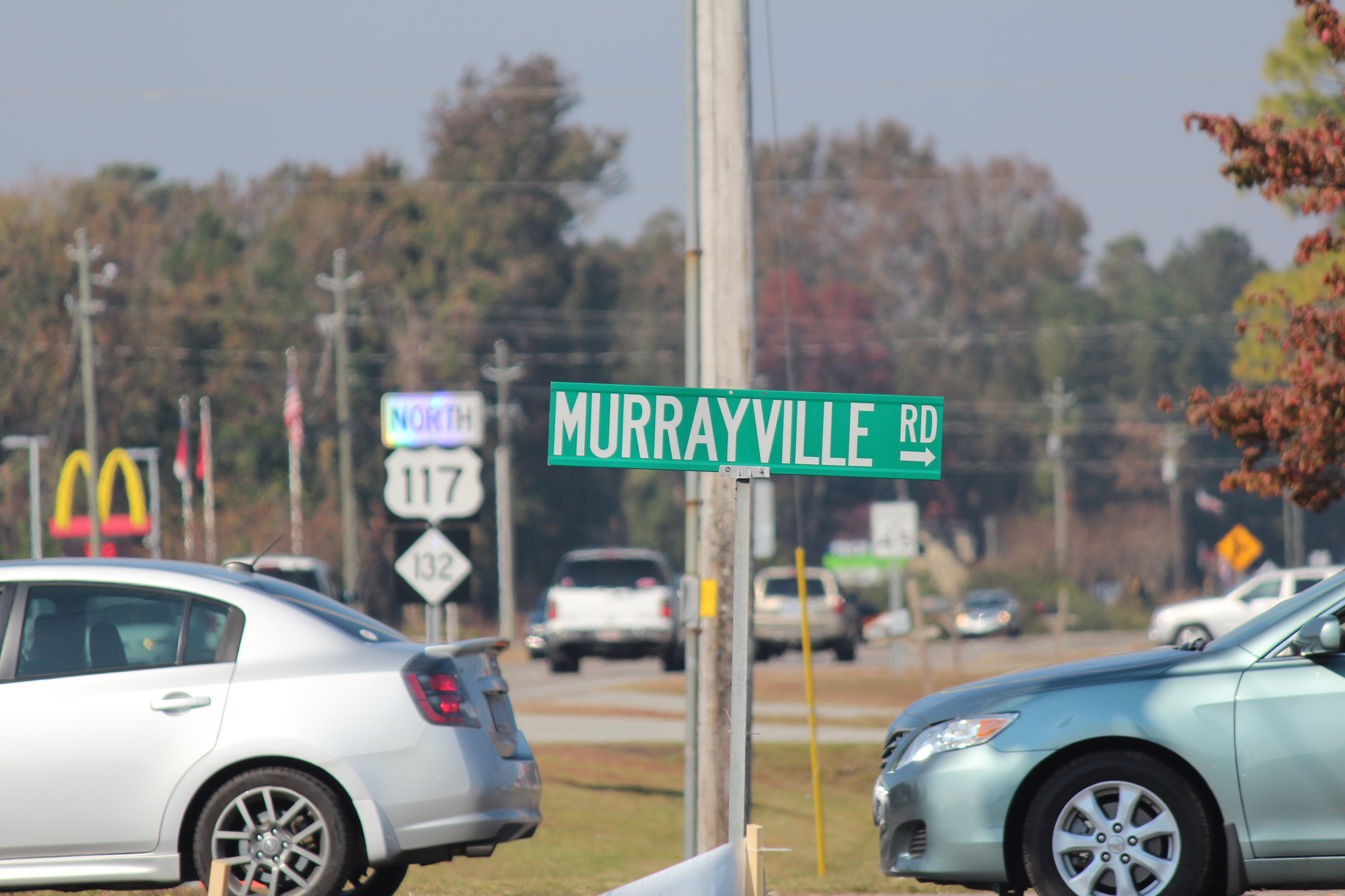 Murrayville Road signage in Murrayville, North Carolina. This sign is the center of Murrayville at the main junction.